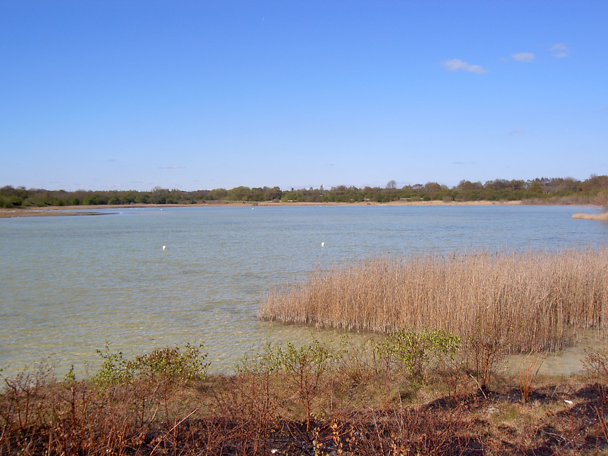 Neumann's Flash near Northwich, Cheshire, England.